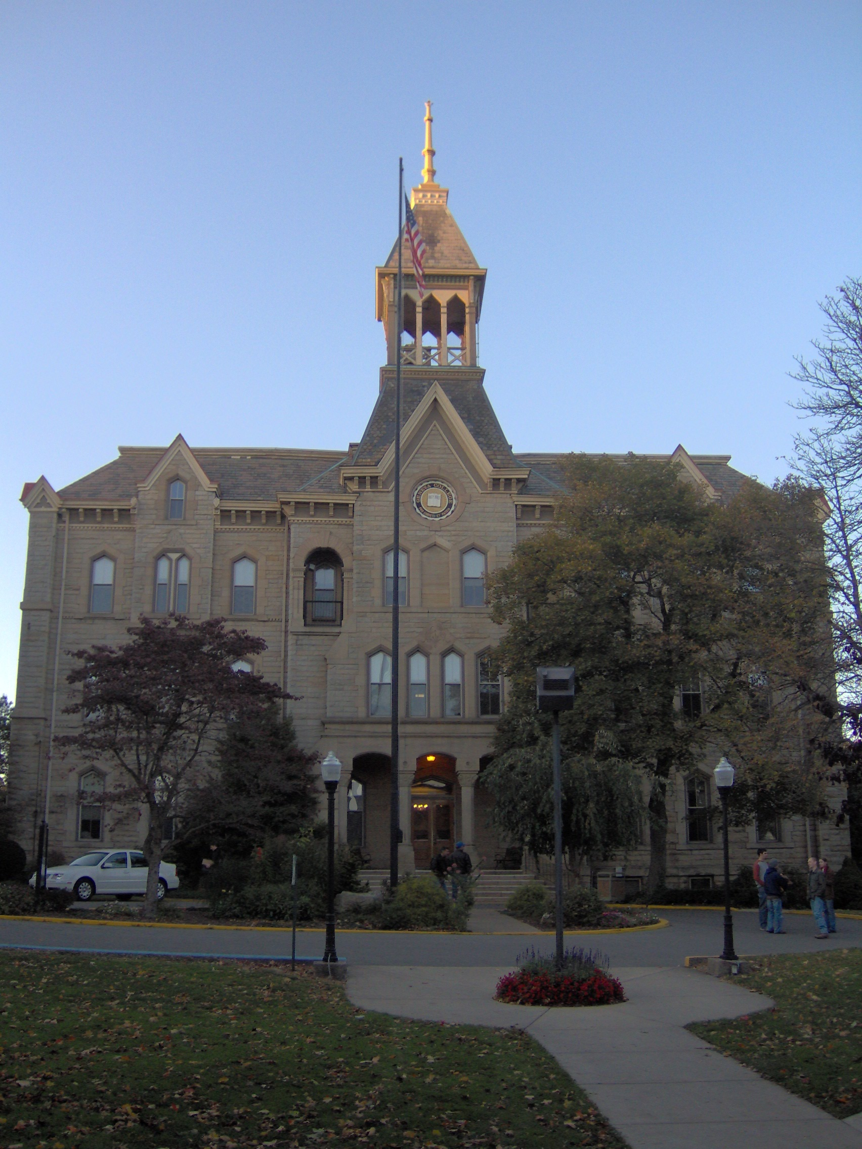 Southern façade of Old Main at Geneva College in Beaver Falls, Pennsylvania, United States, located at 3200 College Avenue. This picture has been used as the cover for a republished edition of W.M. Glasgow's History of the Reformed Presbyterian Church in America — see here.